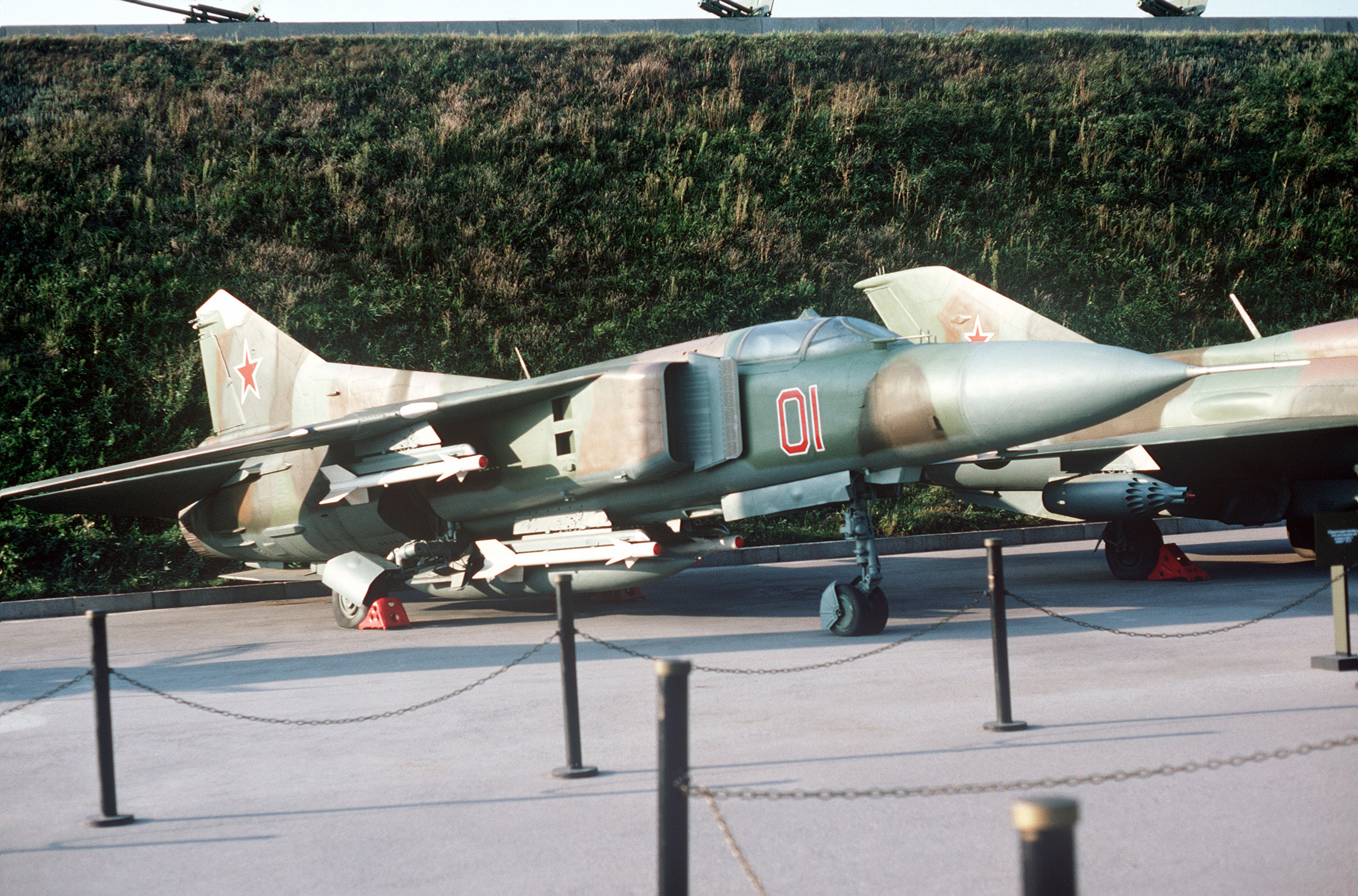 Right front view of a Soviet MIG-23 Flogger B fighter aircraft with AAM-2 Atoll missiles attached to the undercarriage and wing pylons. The aircraft is on public display at the Memorial Complex of the Ukrainian State.